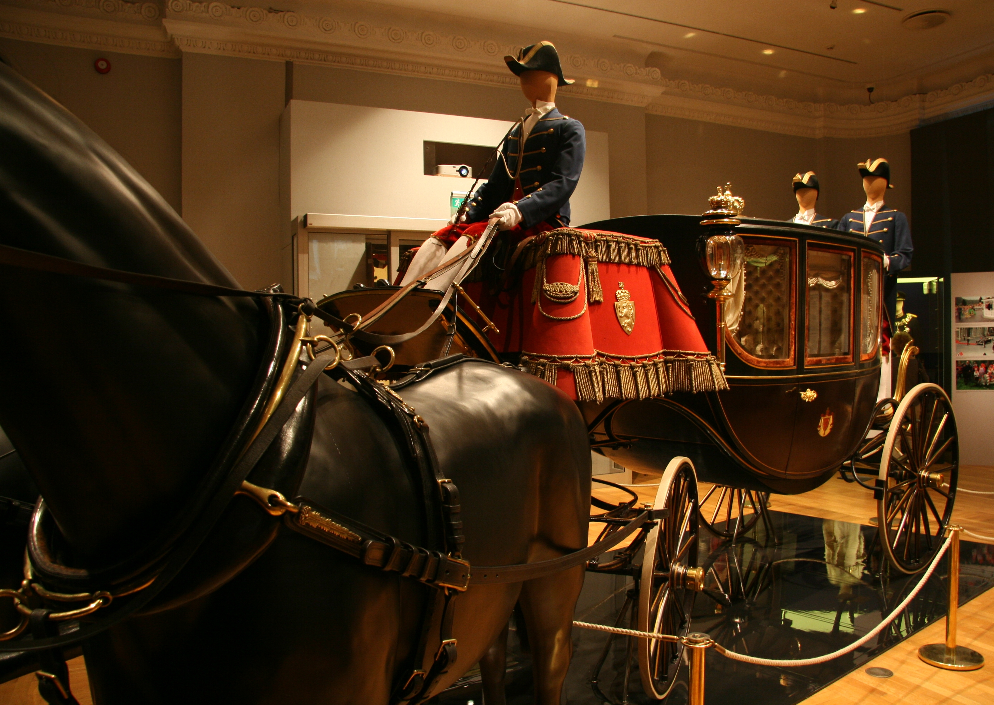 The Museum of Decorative Arts and Design, Oslo, NorwayNorsk bokmål: Kroningsvognen used at The coronation of Haakon VII and Maud in 1906